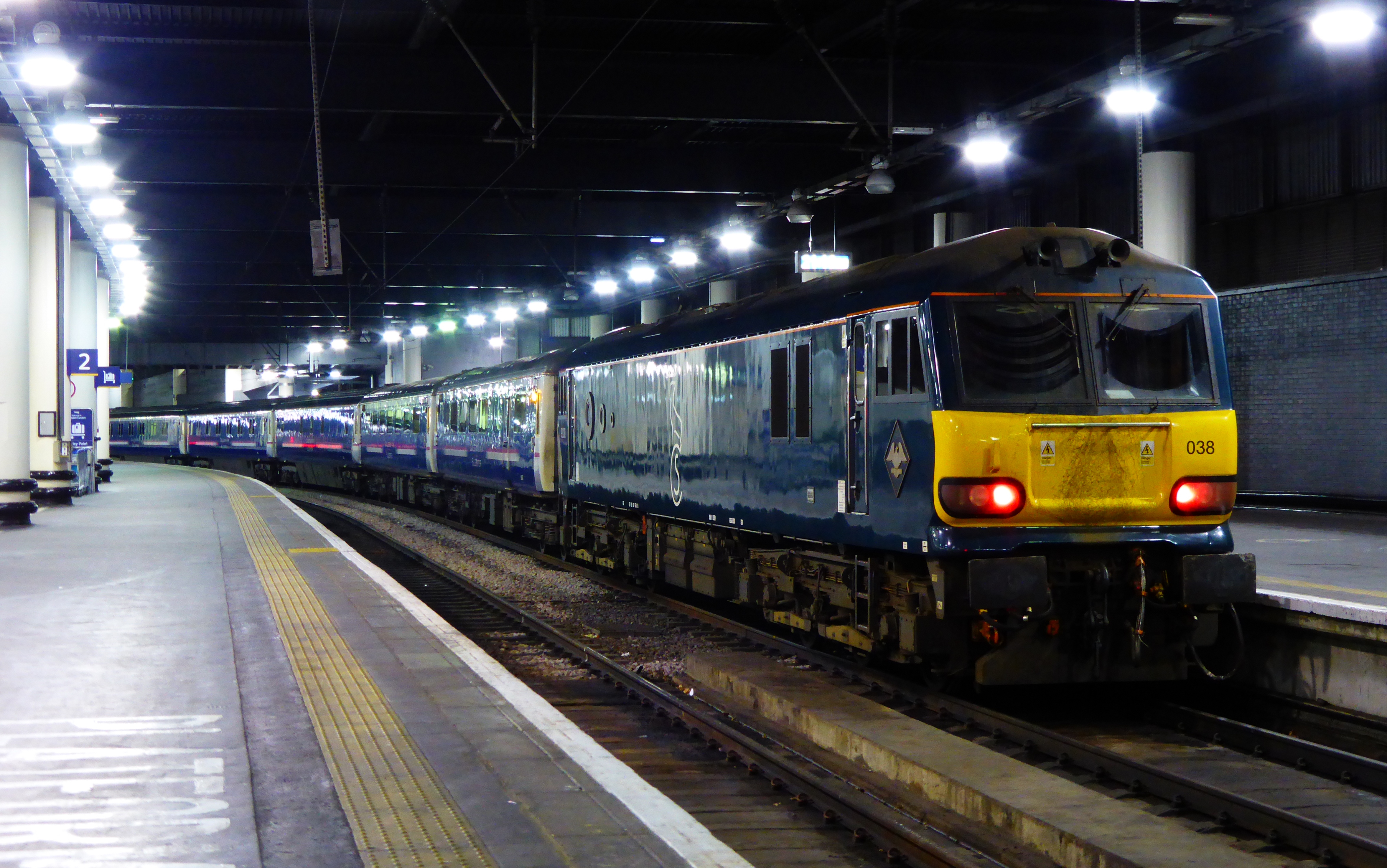 According to Realtime Trains the route and timings were; Wembley Inter City Depot [XWF]...1917..........1902 1/2...14E Harlesden Junction...........................1928........1921 1/4.....6E Willesden West Ldn Jn.....................1931.........1923 1/2.....7E Queens Park (London) ......................1932 1/2..1926..........6E Camden Junction..............................1934 1/2..1929 3/4...4E Camden South Jn..............................1935........1931...........3E London Euston [EUS]........................1938........1934 3/4...3E